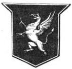 The badge of Gray's Inn.